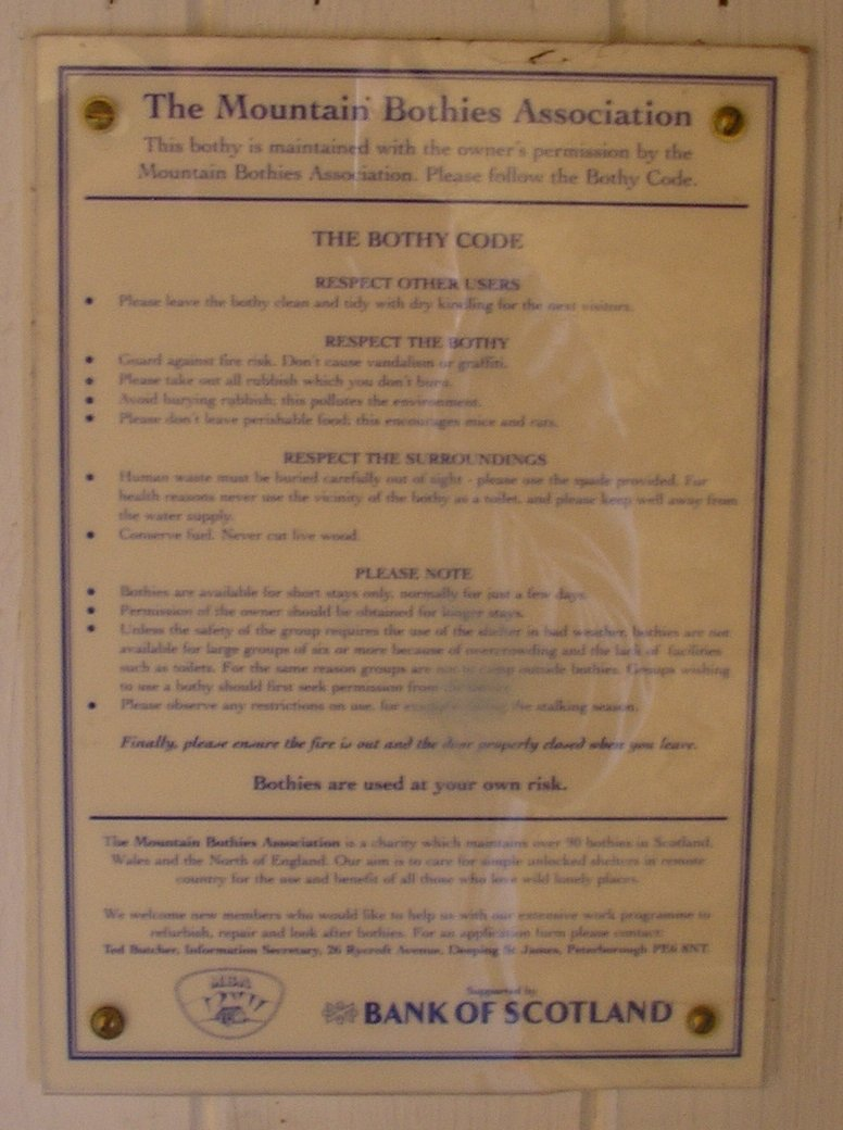 The Bothy Code. Picture taken by me on 18th February 2007 at the "Tarf Hotel".